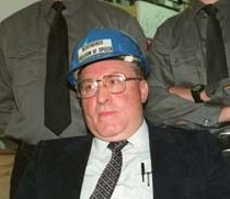 The seated man is Ernst Zündel. Lemire has stated that the photo was taken in 1992 on the day of Zundel's legal victory in R. v. Zundel.